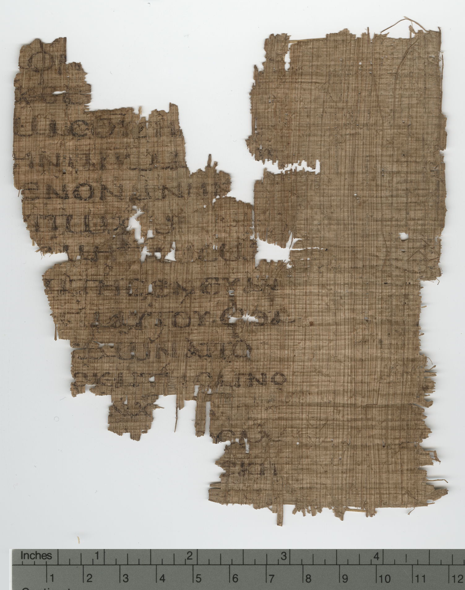 P124 recto